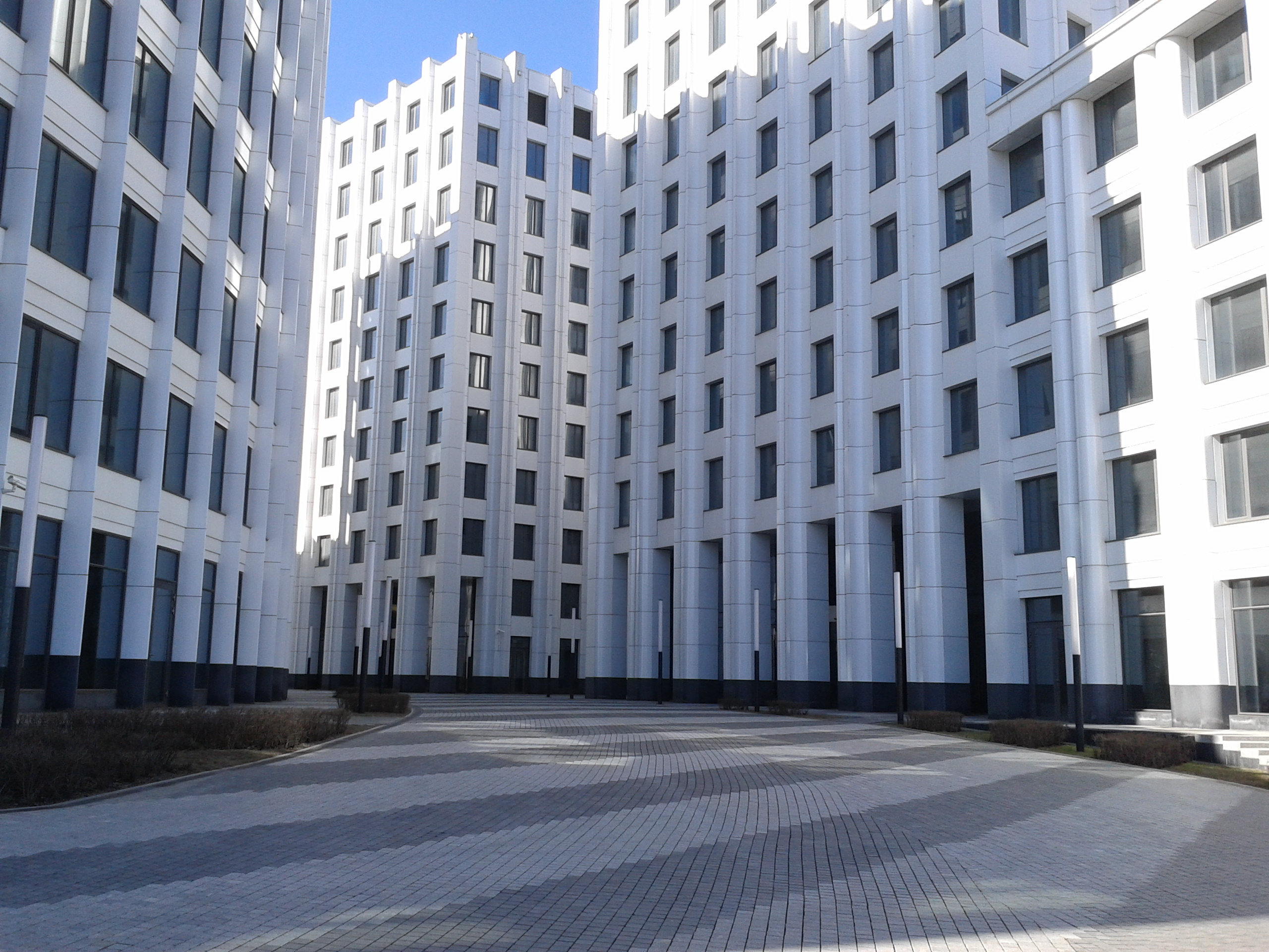 Modern architecture of Moscow (Ozerkovskaya Embankment, 24), Russia